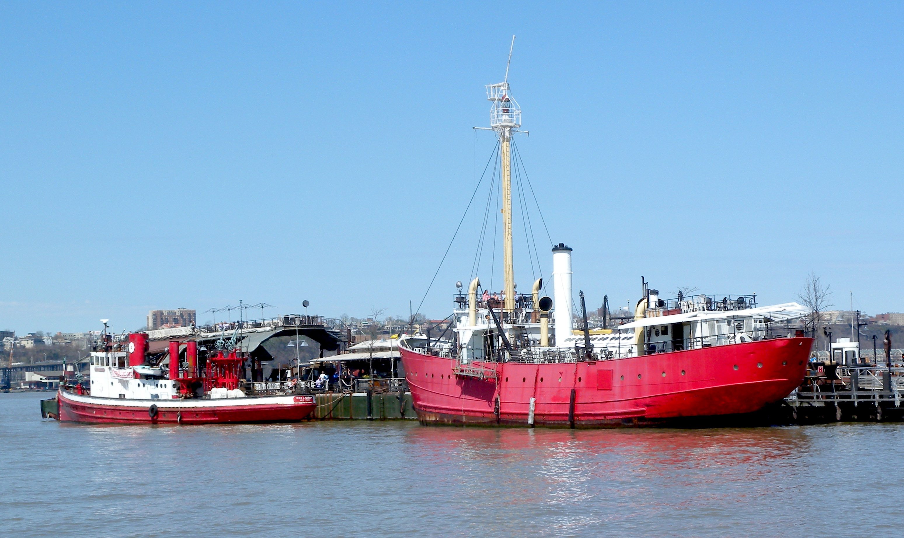 Looking north at lightship Frying Pan and fireboat John J. Harvey on a sunny midday.